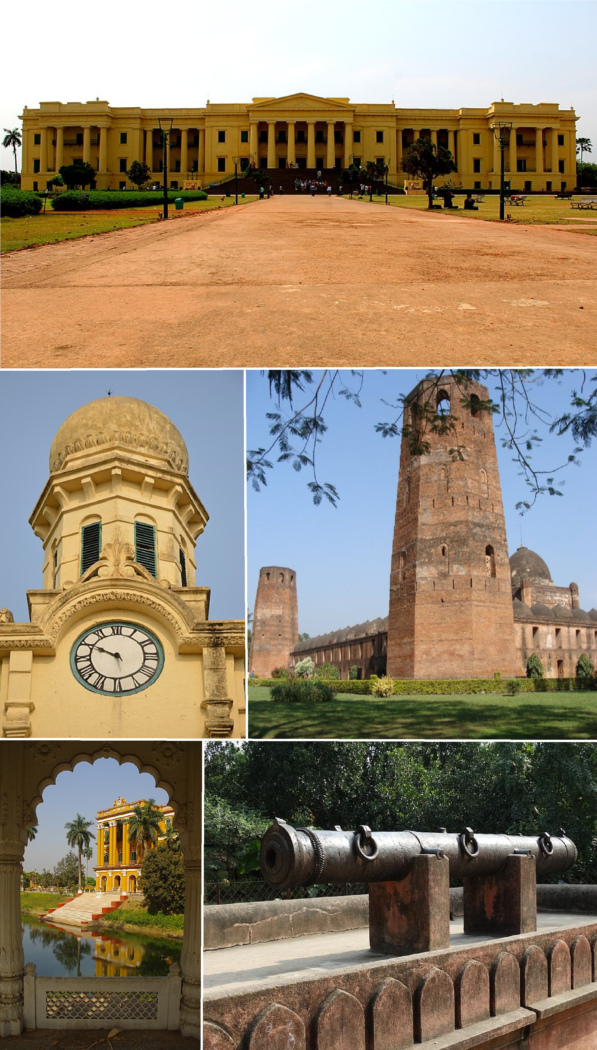 Murshidabad, West Bengal, India. The town is a former capital of Bengal.